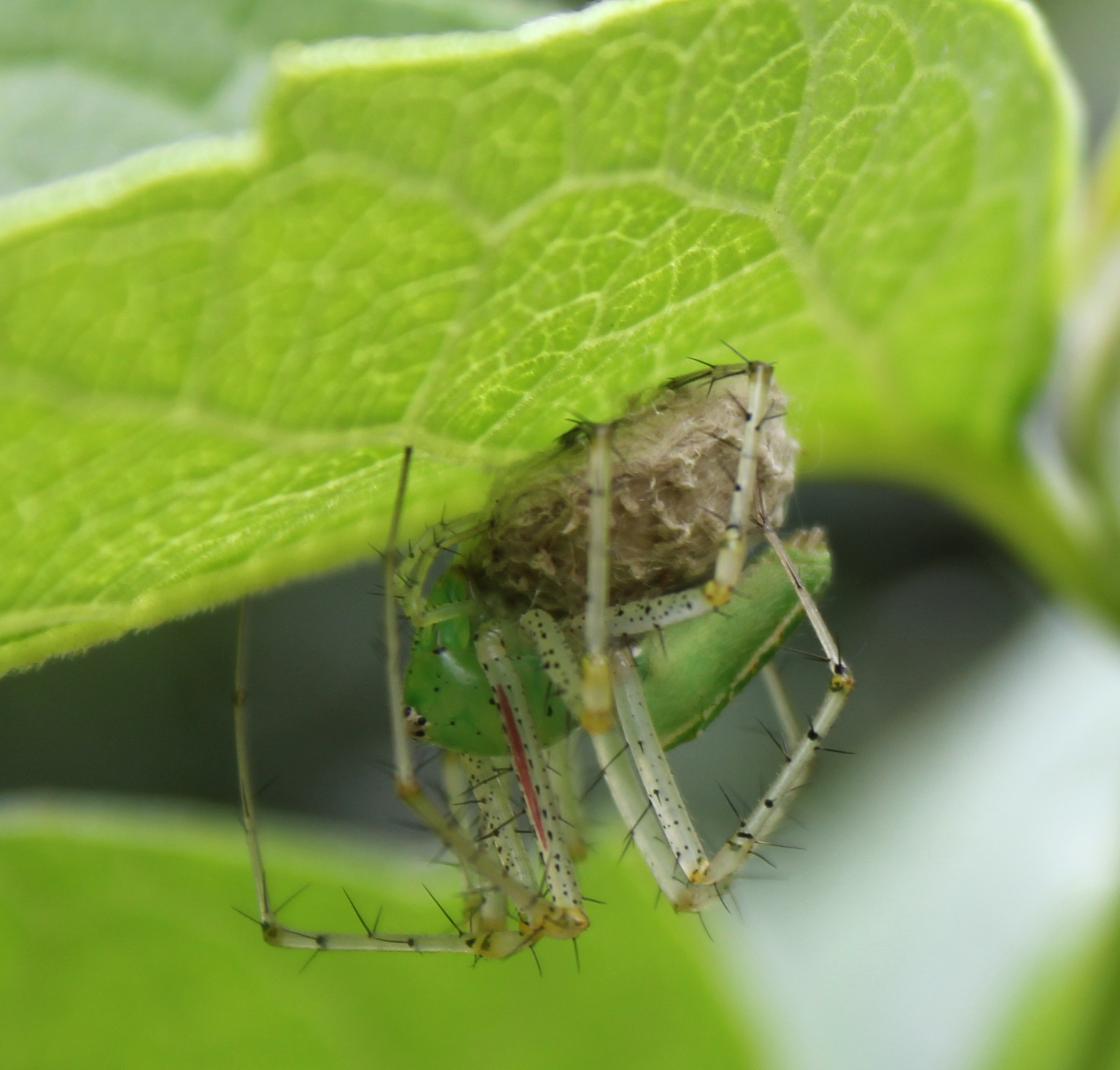 Female green lynx spider with egg sac on a leaf of a Night-flowering Jasmine